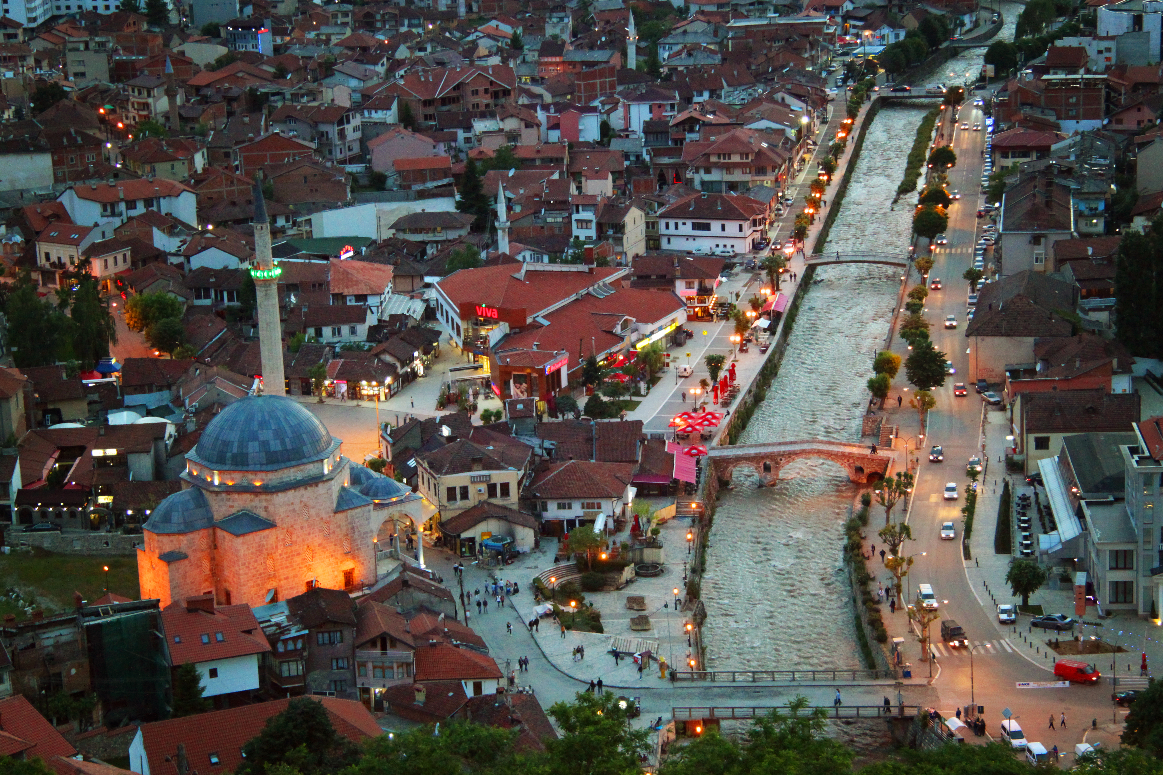 In the summer the city has many beautiful colors